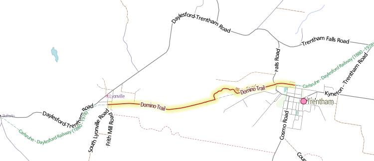 Map of the Domino Trail, a rail trail in north central Victoria, Australia. Data is OpenStreetMap, map style is by me.